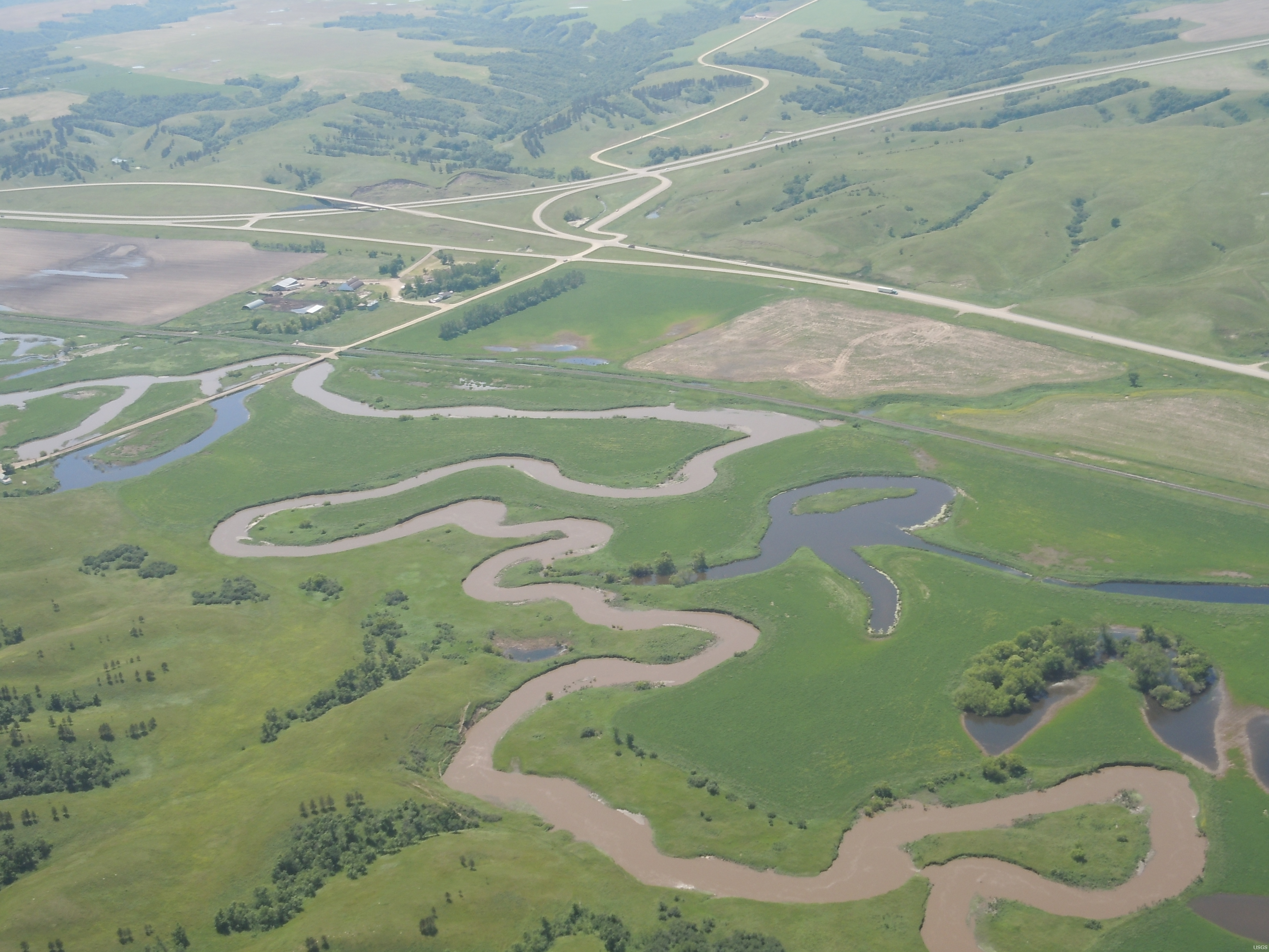 Des Lacs River in North Dakota. Photo taken by USGS personnel on a Civil Air Patrol flight. The picture shows the intersection of US-2 and US-52 northwest of Burlington, North Dakota.